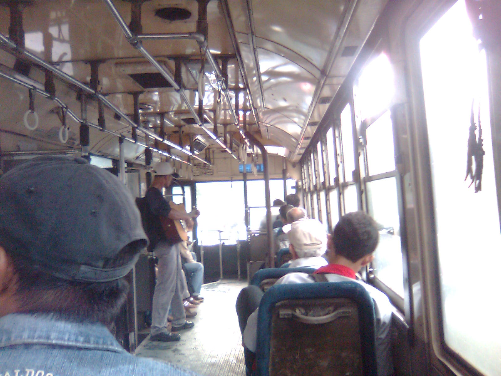 Second-hand bus from Japan operating in Jakarta, Indonesia.